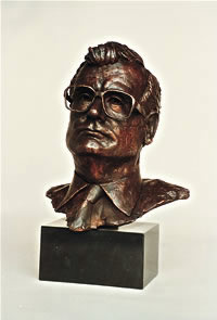 Bronze bust of Philippe Chatrier by sculptor Laurence Broderick